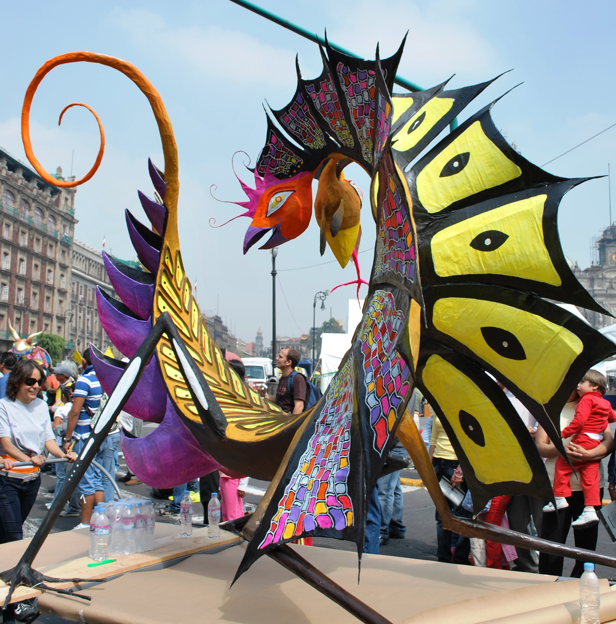 Alebrije named Coleccionista de Miradas at the beginning of the parade in the Zocalo